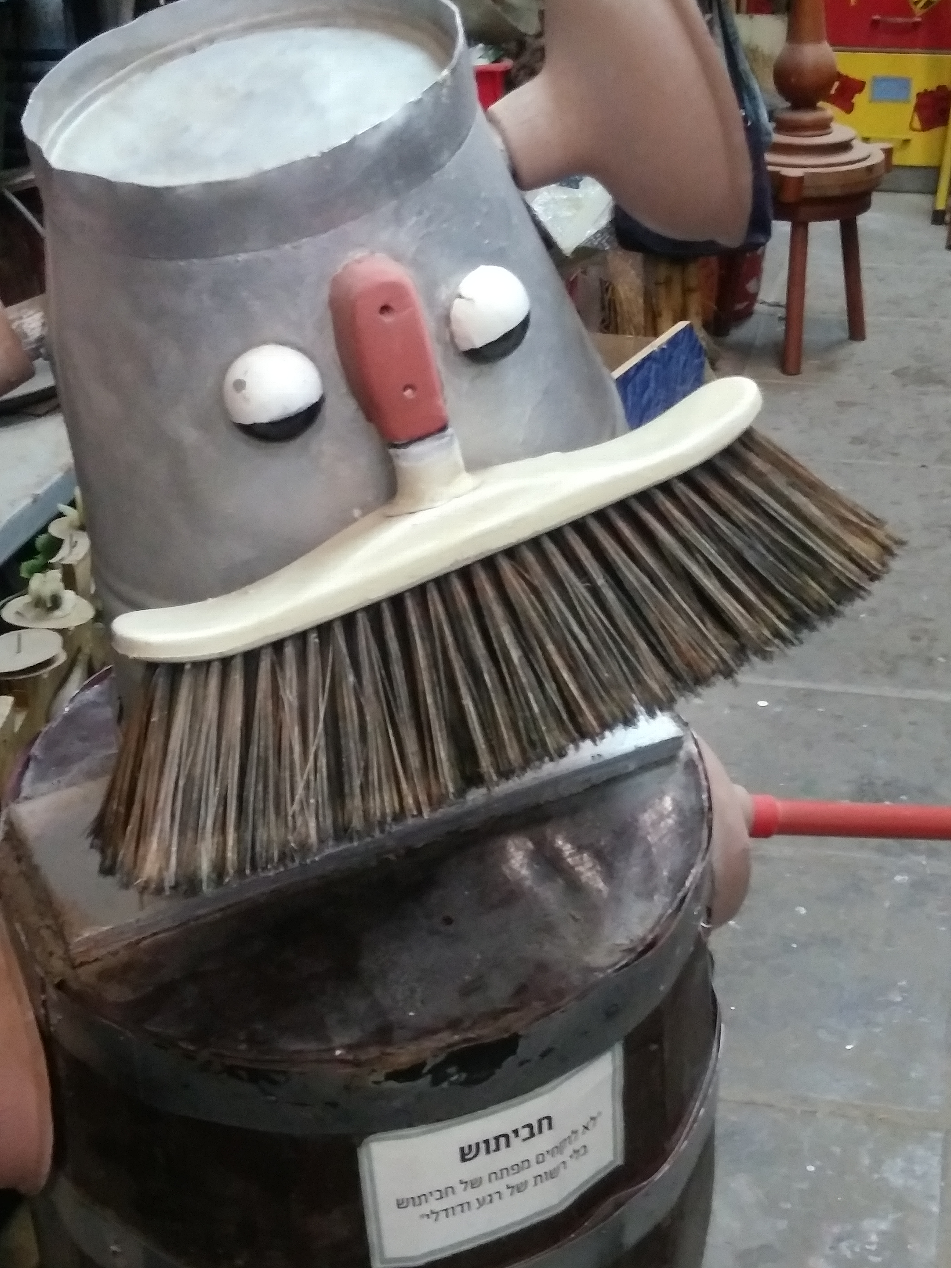 The barrel "Havitush" in the props storage, Israeli educational television studios